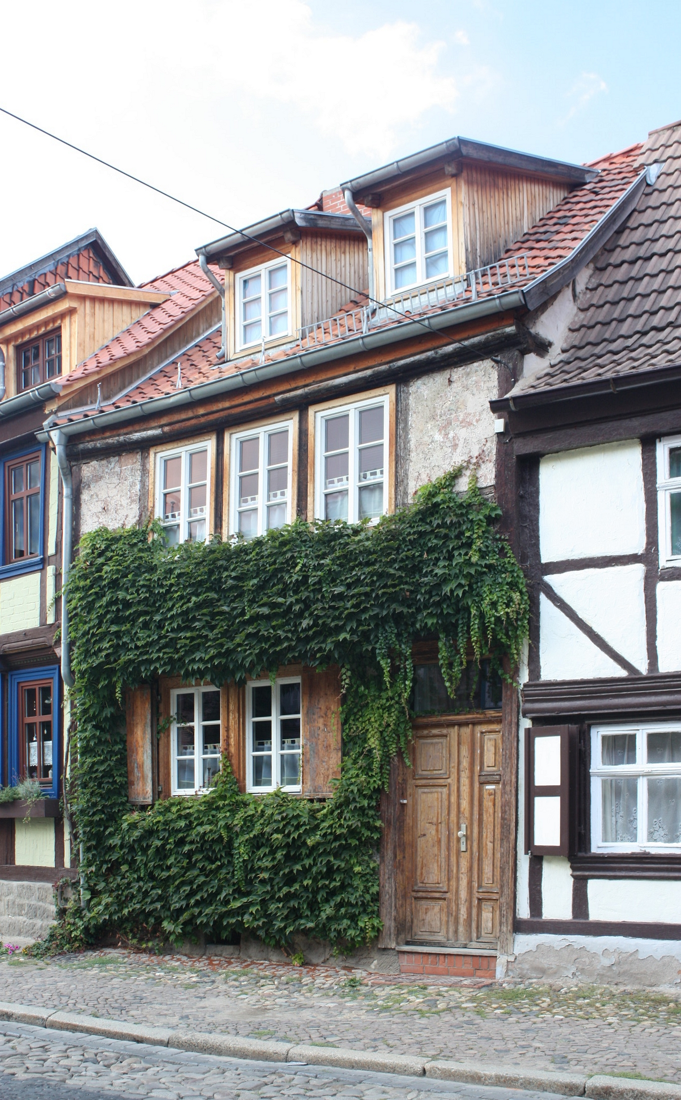 This is a photograph of an architectural monument.It is on the list of cultural monuments of Quedlinburg Augustinern 20 in Quedlinburg